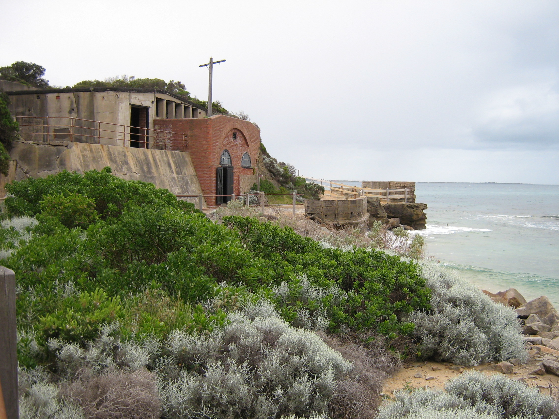 Point Nepean coastal walk. Fort Nepean engine house.